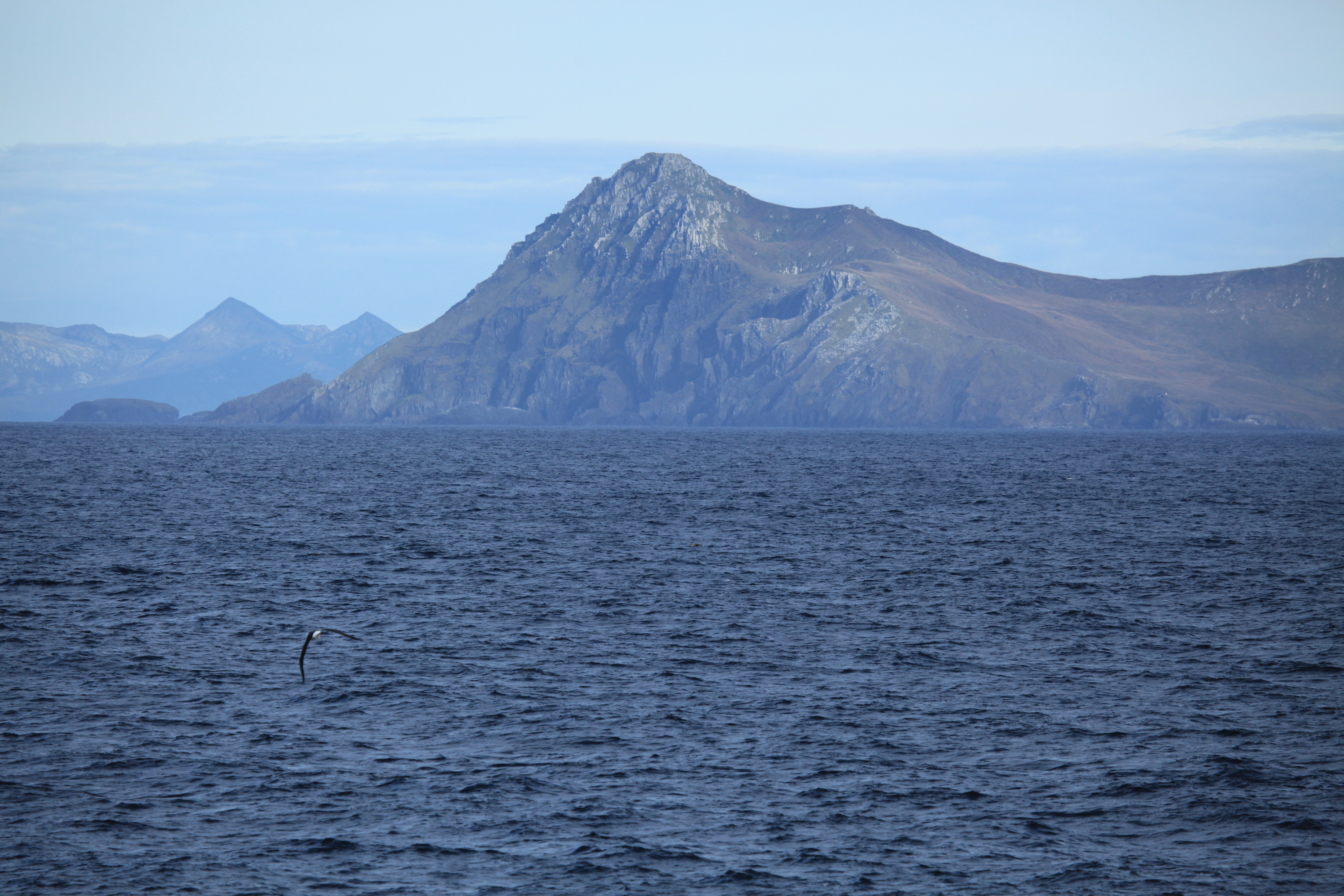 Cape Horn, Chile